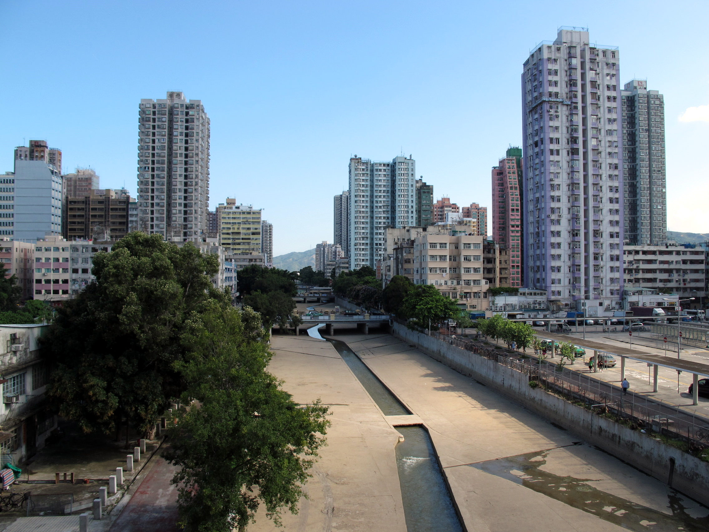 Shan Pui River